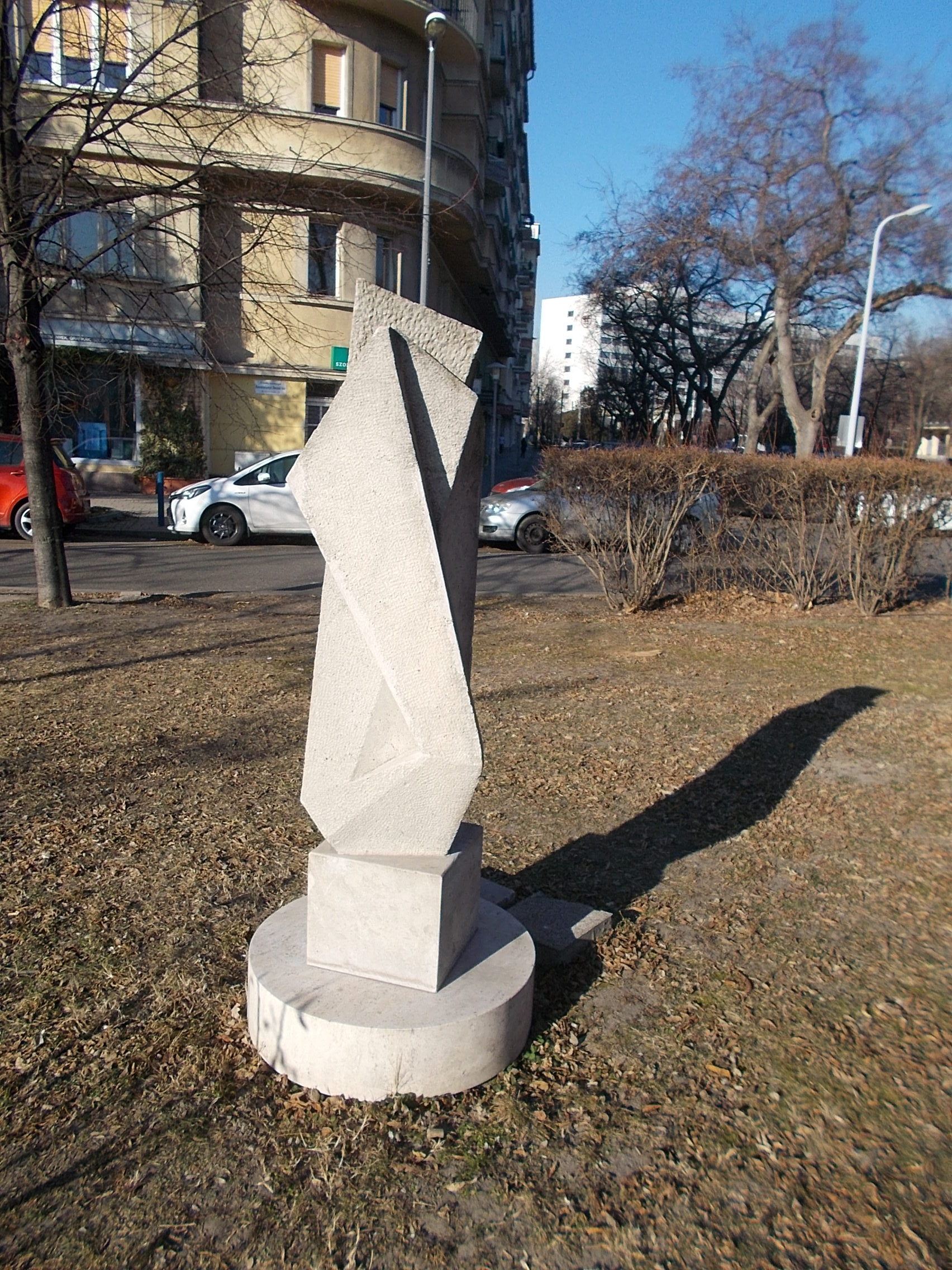 Bartók: Concerto at Kosztolányi Square, Budapest District IX, Budapest.